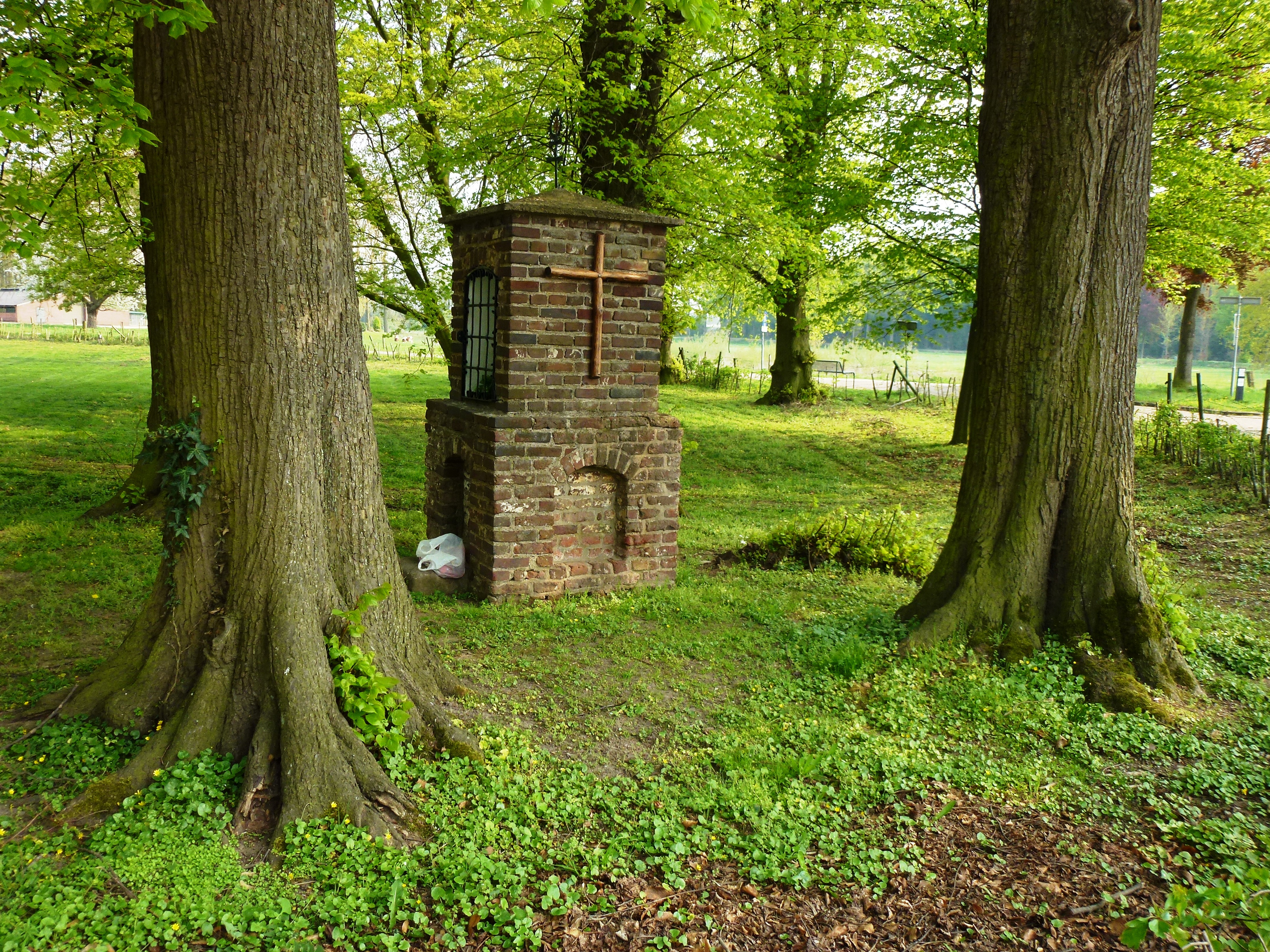 Linne (Maasgouw) wegkapel bij Weerd 6